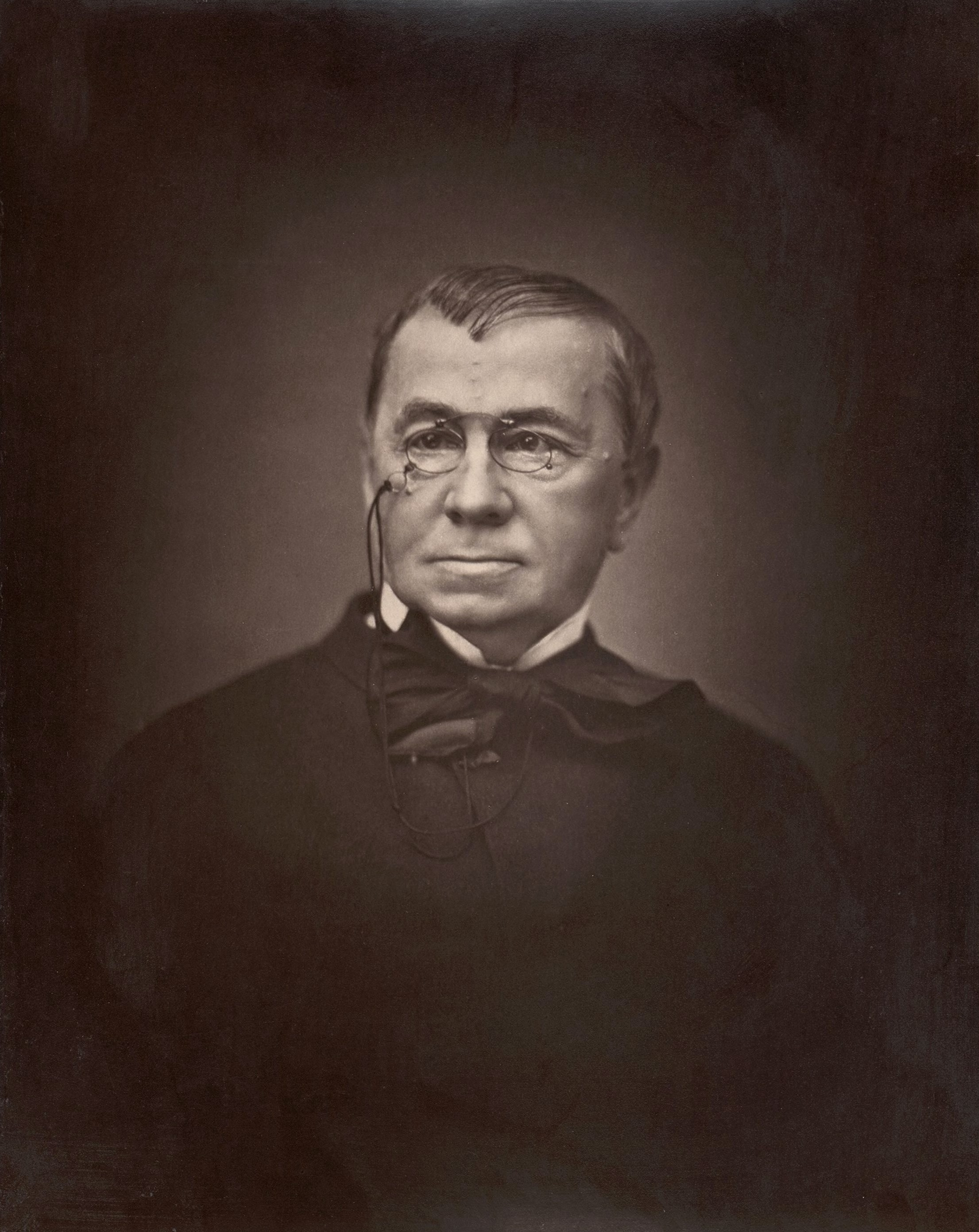 Woodburytype of Émile de Girardin